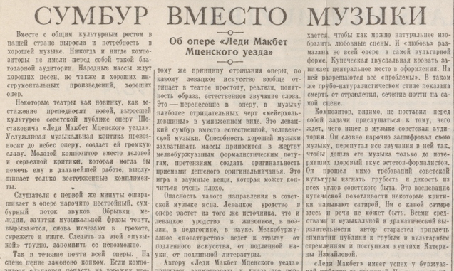 "Muddle instead of music", Pravda, 28th January, 1936